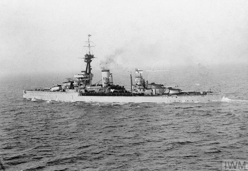 A post-1915 photo of an Orion-class battleship, probably HMS Orion, underway